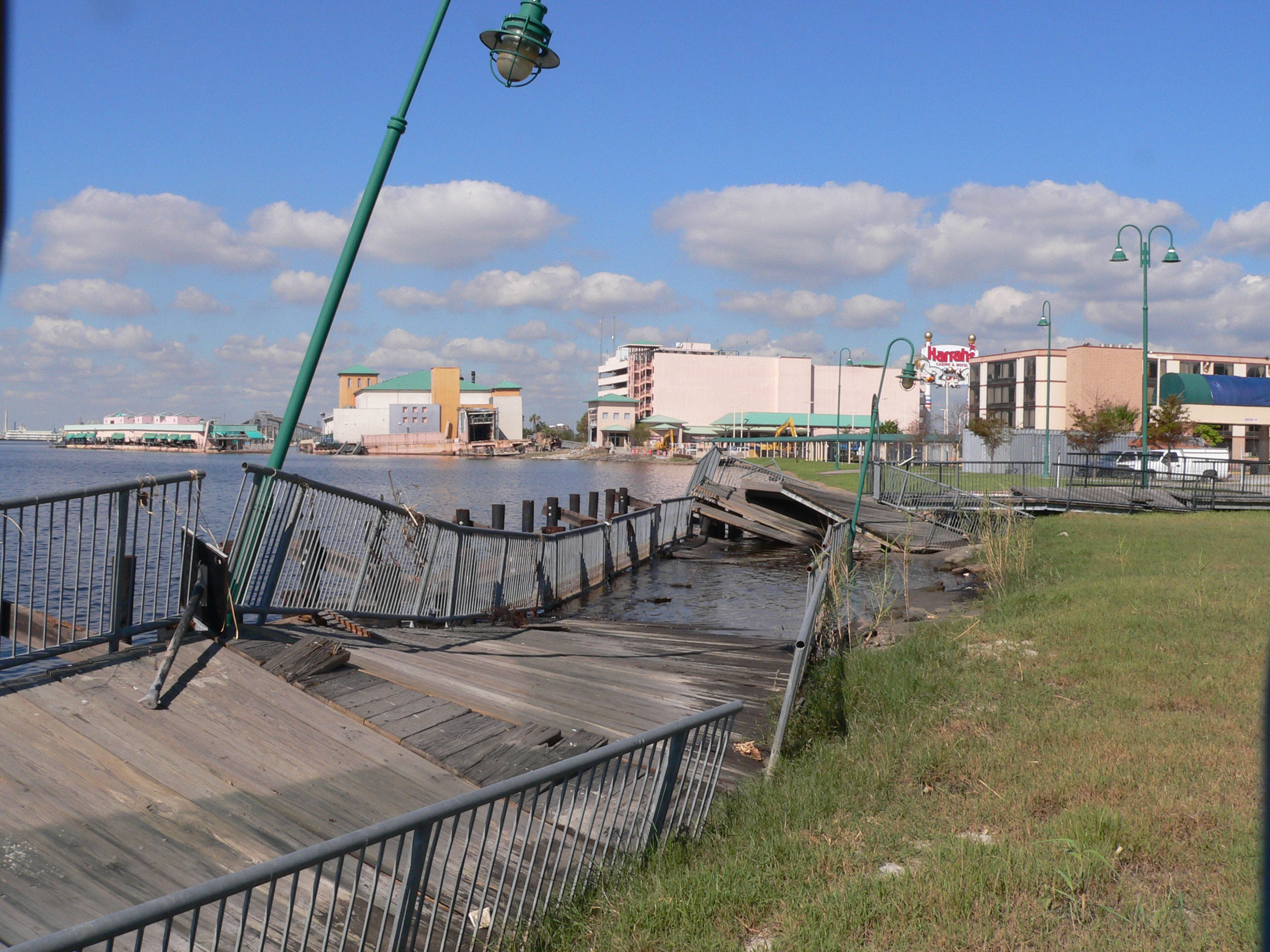 Taken by Douglas Grohne on October 20, 2005. This shot shows destruction by Hurricane Rita in 2005. The boardwalk and Harrah's Casino have been removed, so a visitor would no longer be able to see damage like this along the lake.